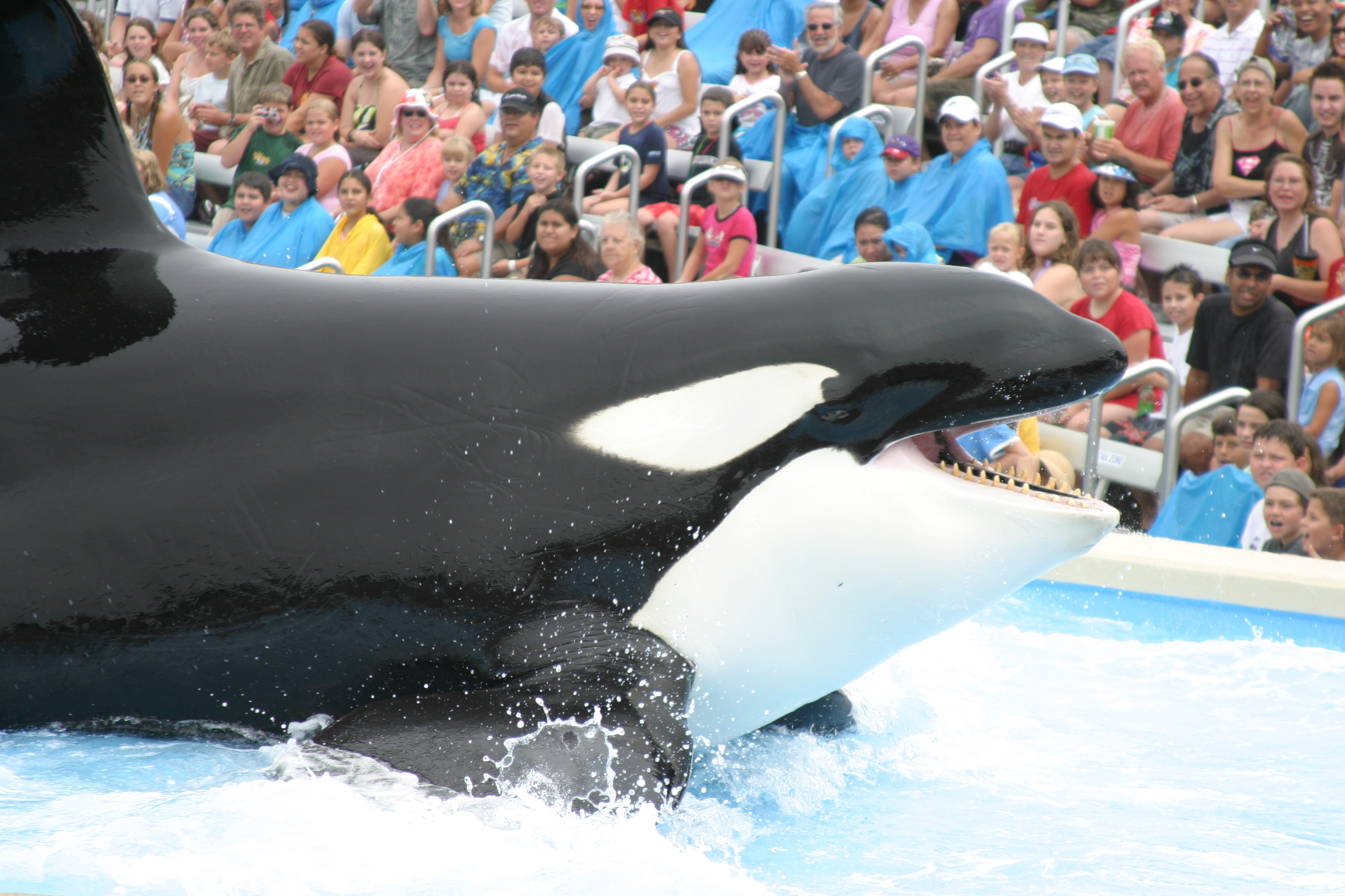 Shamu (Ulises) at Sea World San Diego. Photograph by Patty Mooney, Crystal Pyramid Productions, San Diego, California.